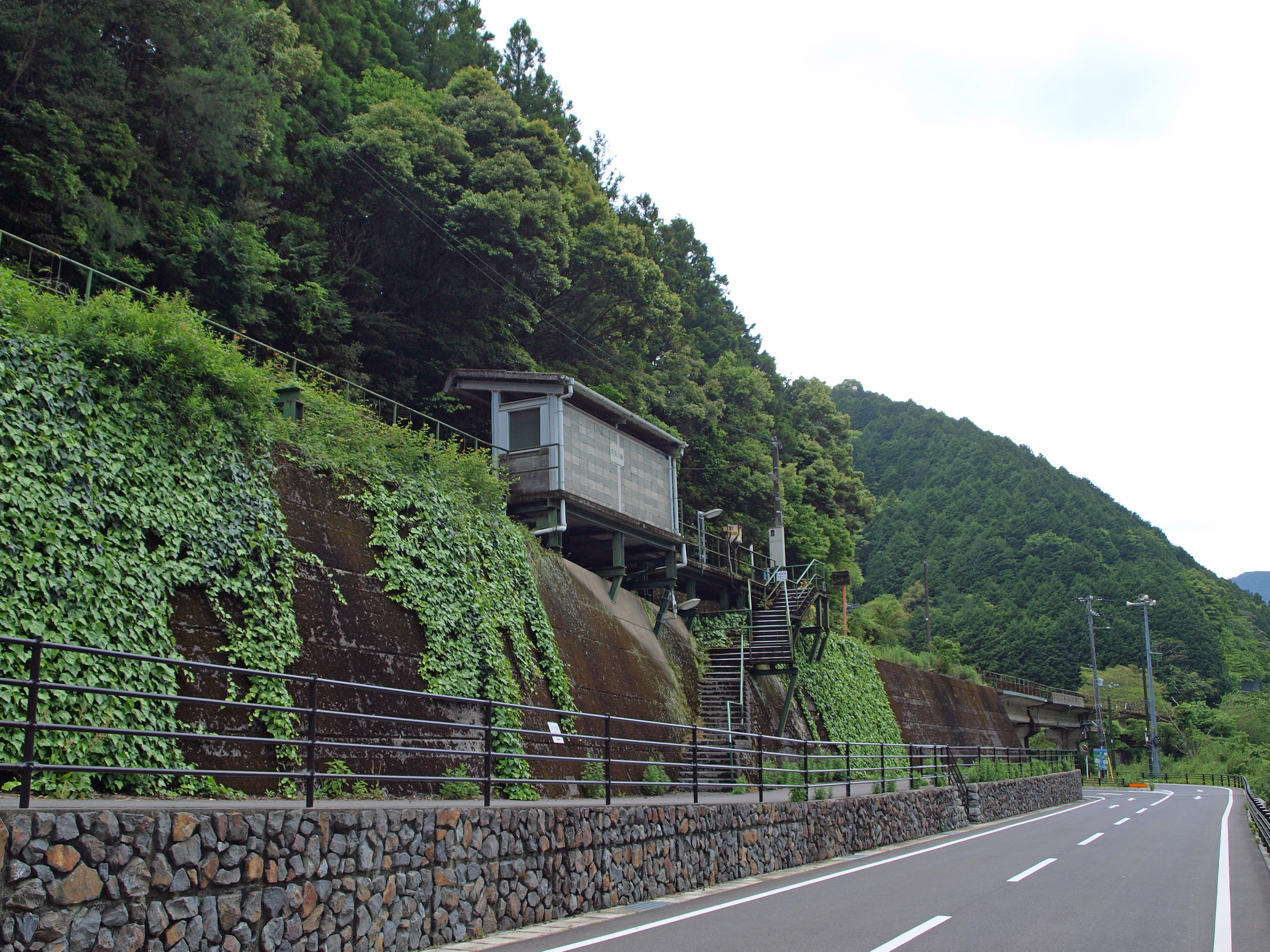 Utsuigawa station, Yodo-line, JR Shikoku, Japan